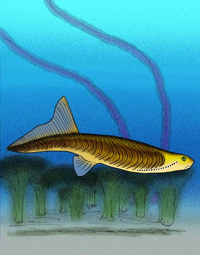 The Silurian anaspid, Jamoytius kerwoodi of what is now Great Britain. (C) Stanton F. Fink